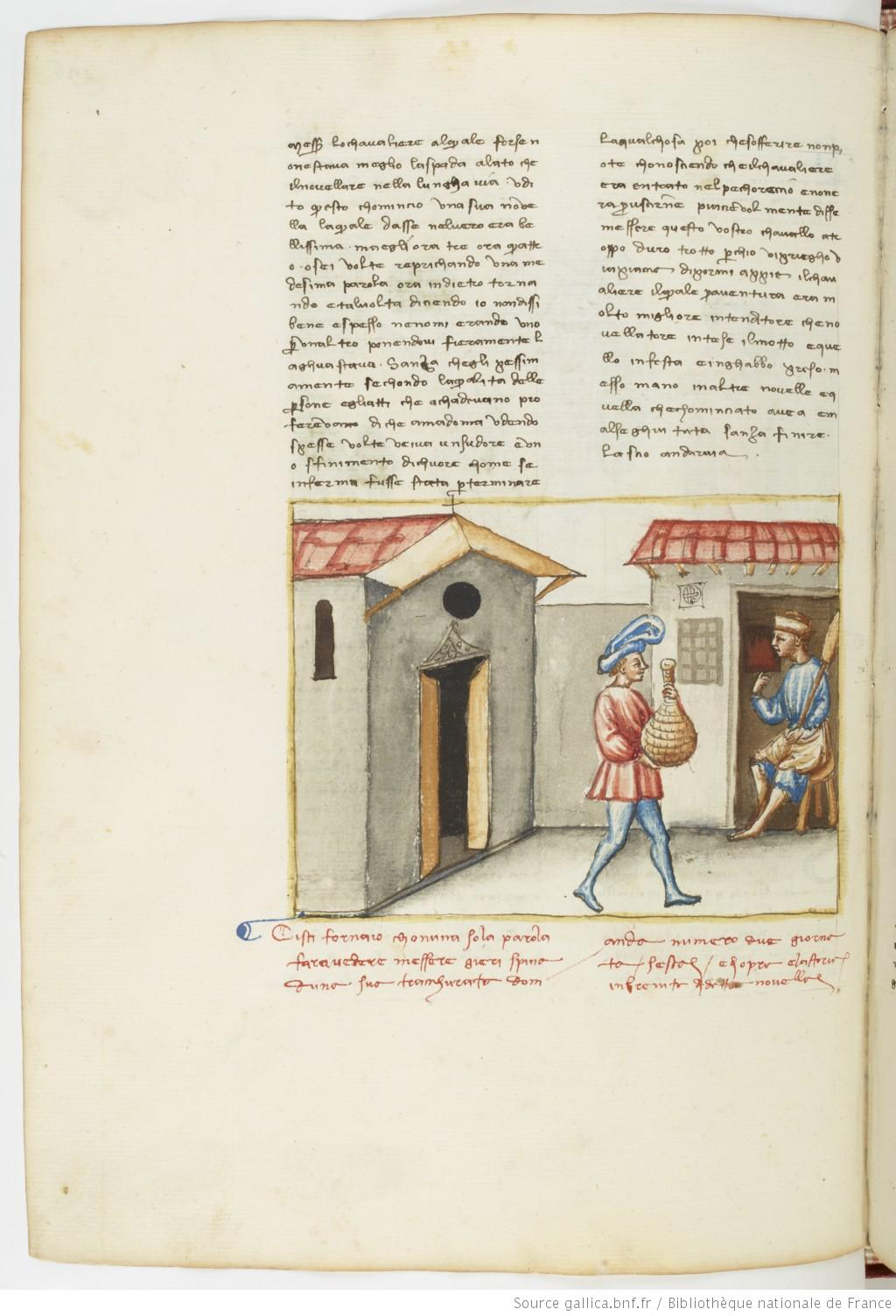 BNF MS Italien 63, fol. 196v: Boccaccio, Decameron: tale 6.2